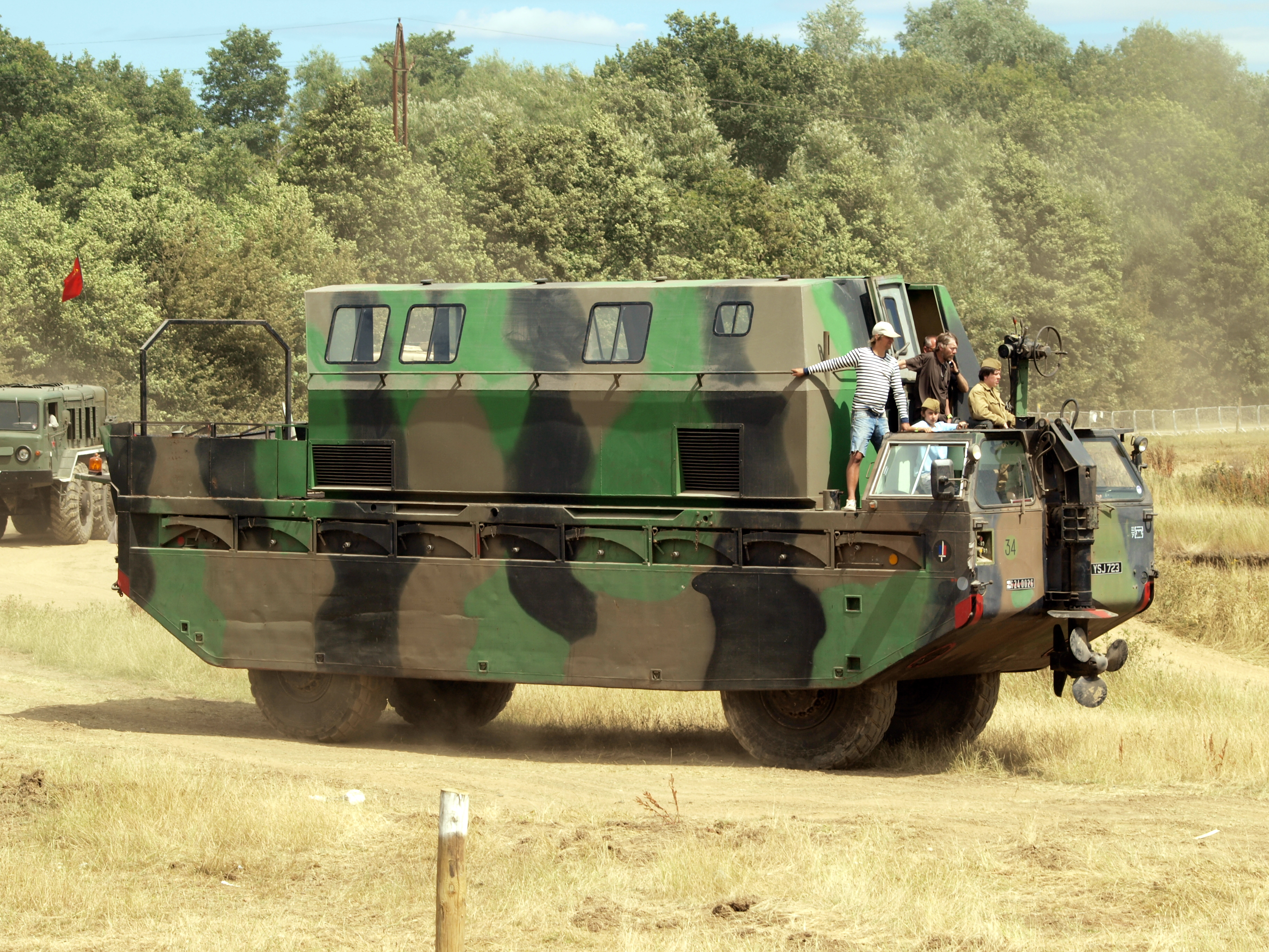 EWK Gillois bridge layer